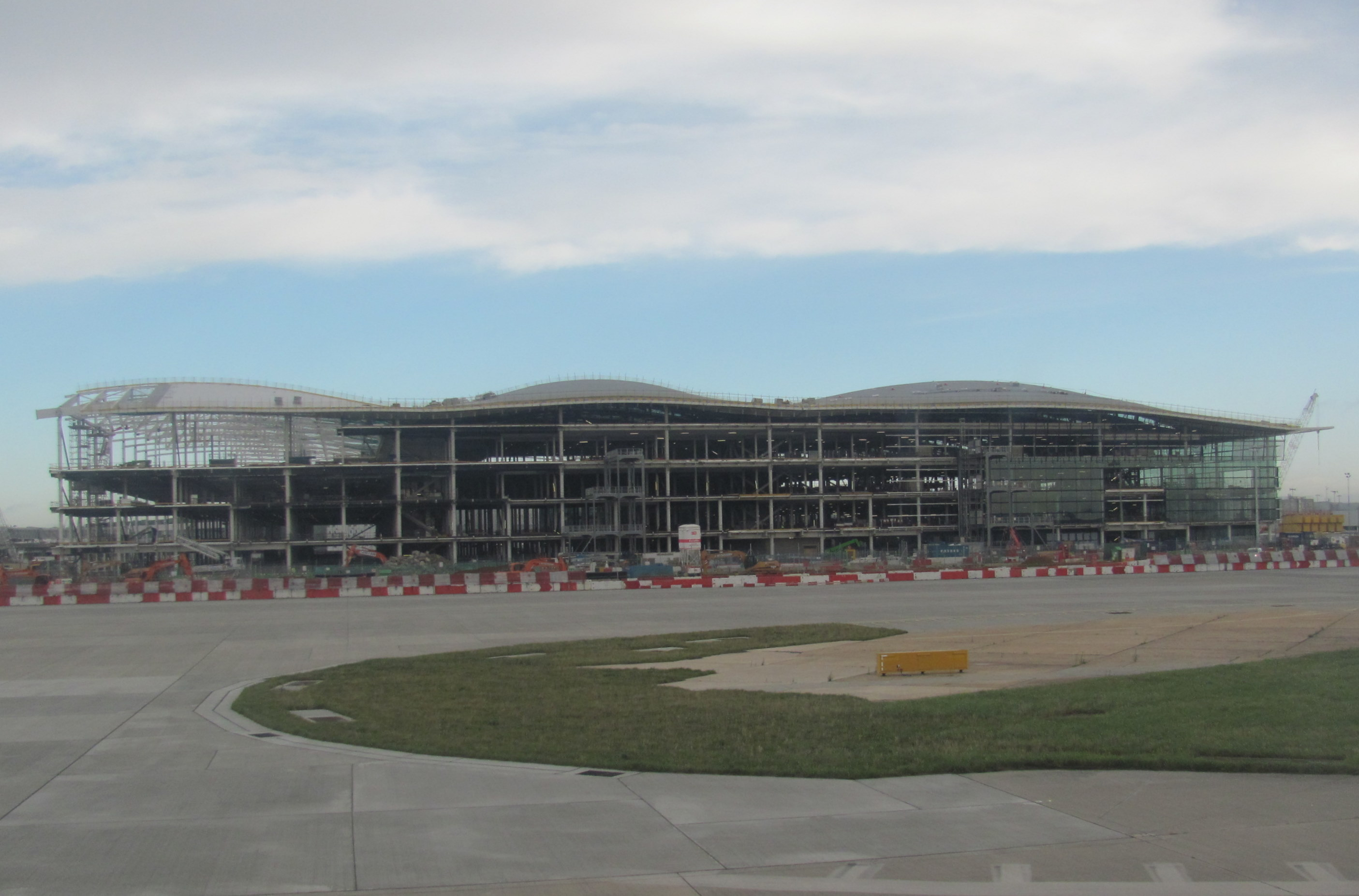 Heathrow Terminal 2 building, under construction.